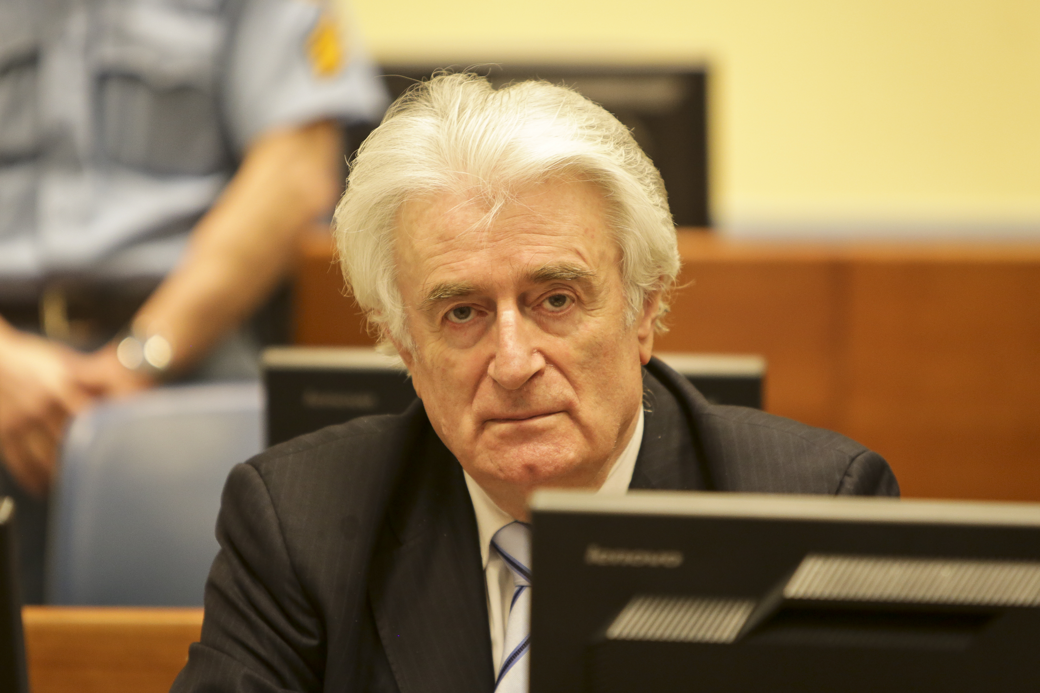 Former Bosnian Serb president Radovan Karadžić